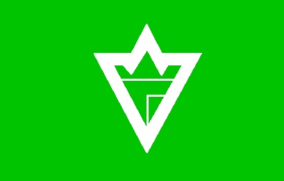 Flag of Iwanuma Miyagi